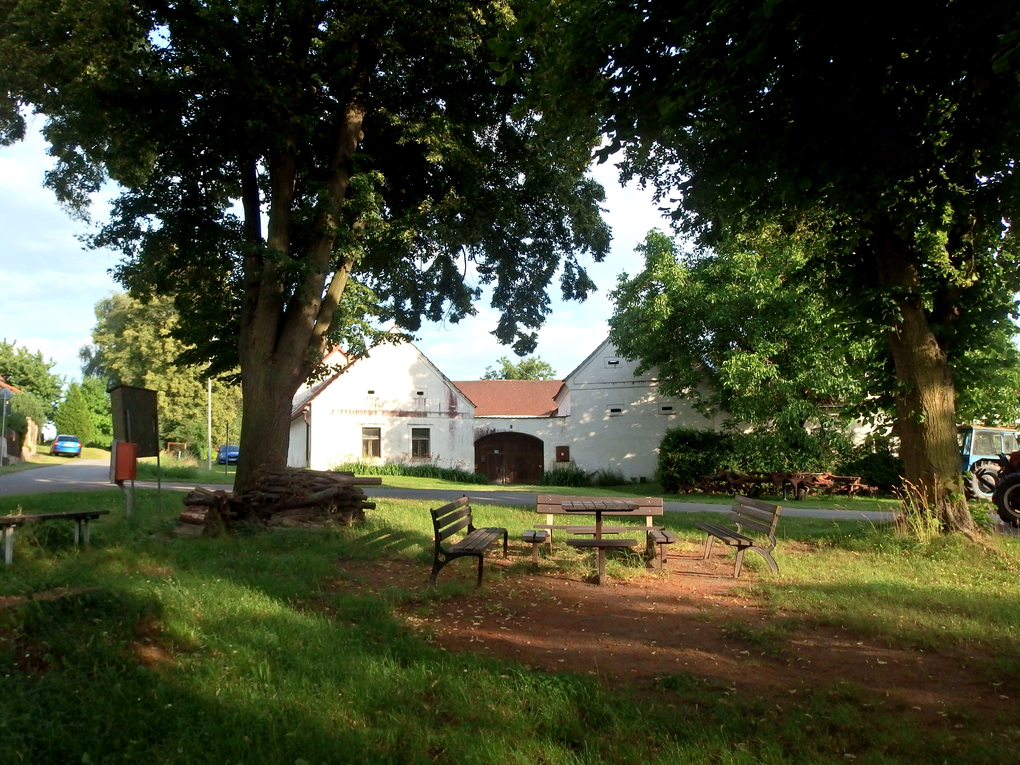 Mirkovice, Český Krumlov District, Czechia, part Žaltice.